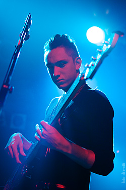 Portrait of Oliver Sim, photographed by Matti Hillig. The photo was taken on a The xx-Concert in Barcelona, Spain on November 9, 2011. Oliver Sim is founding member of the music band The xx. High-resolution versions of this and more photos are available. Please contact me